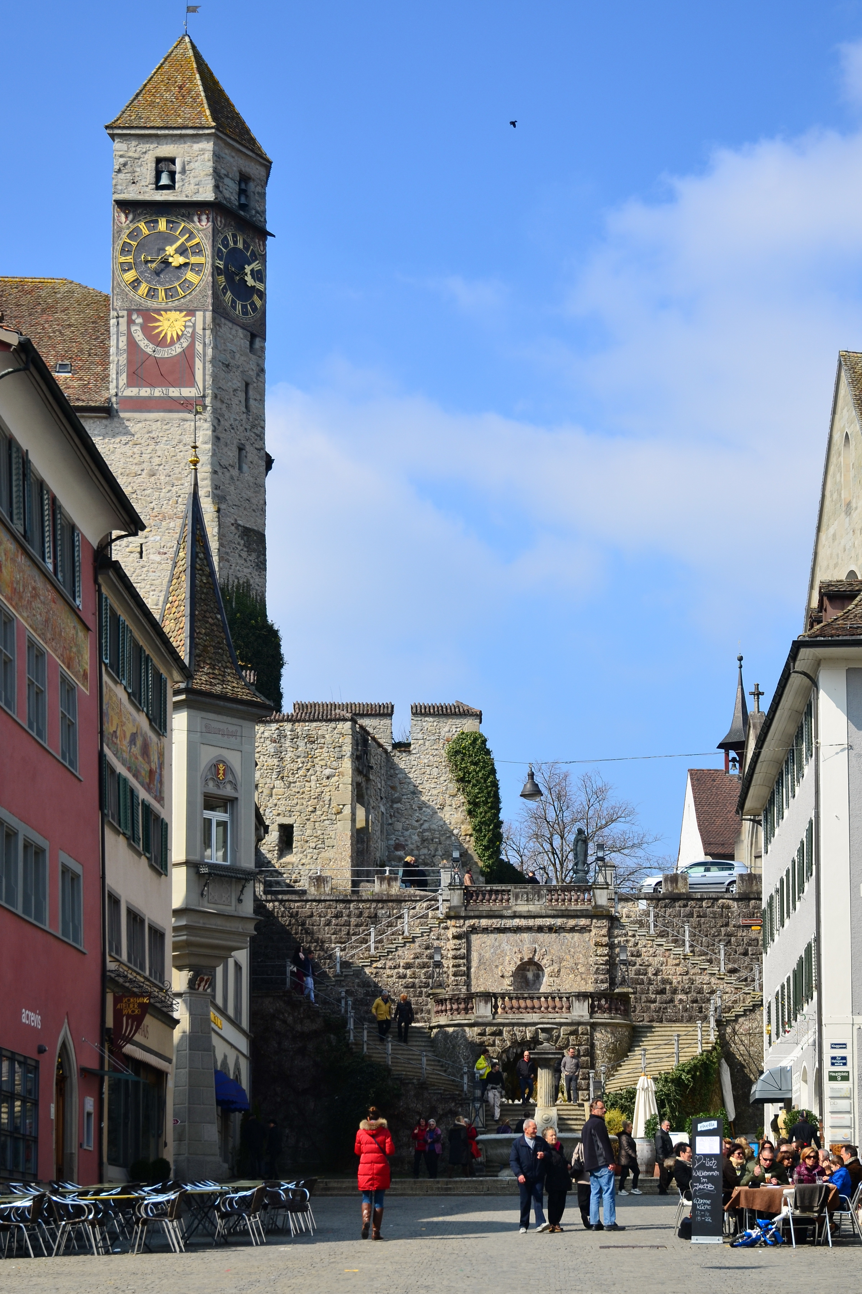 Rapperswil (Switzerland) : Rapperswil castle's Zeitturm as seen from Hauptplatz respectively Rathaus.